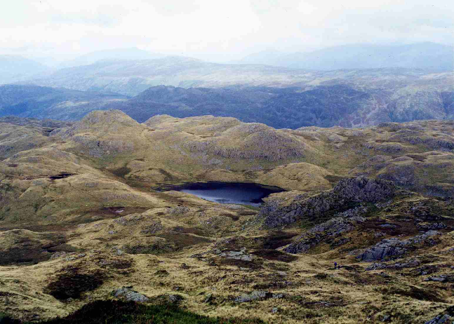 Personal picture taken by Mick Knapton